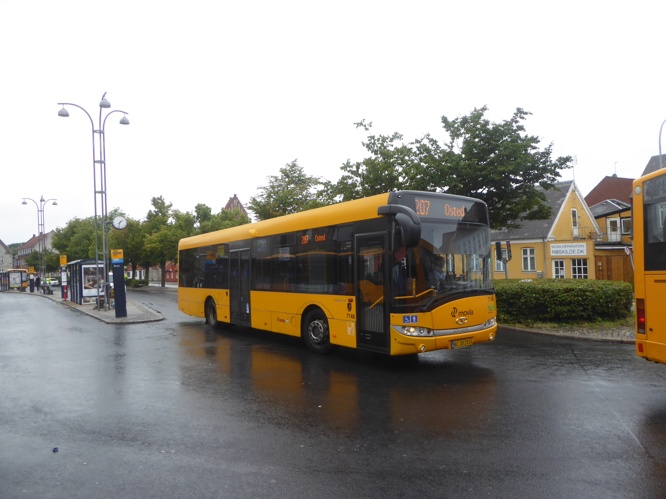 Movia bus line 207 at Roskilde Station in Denmark.